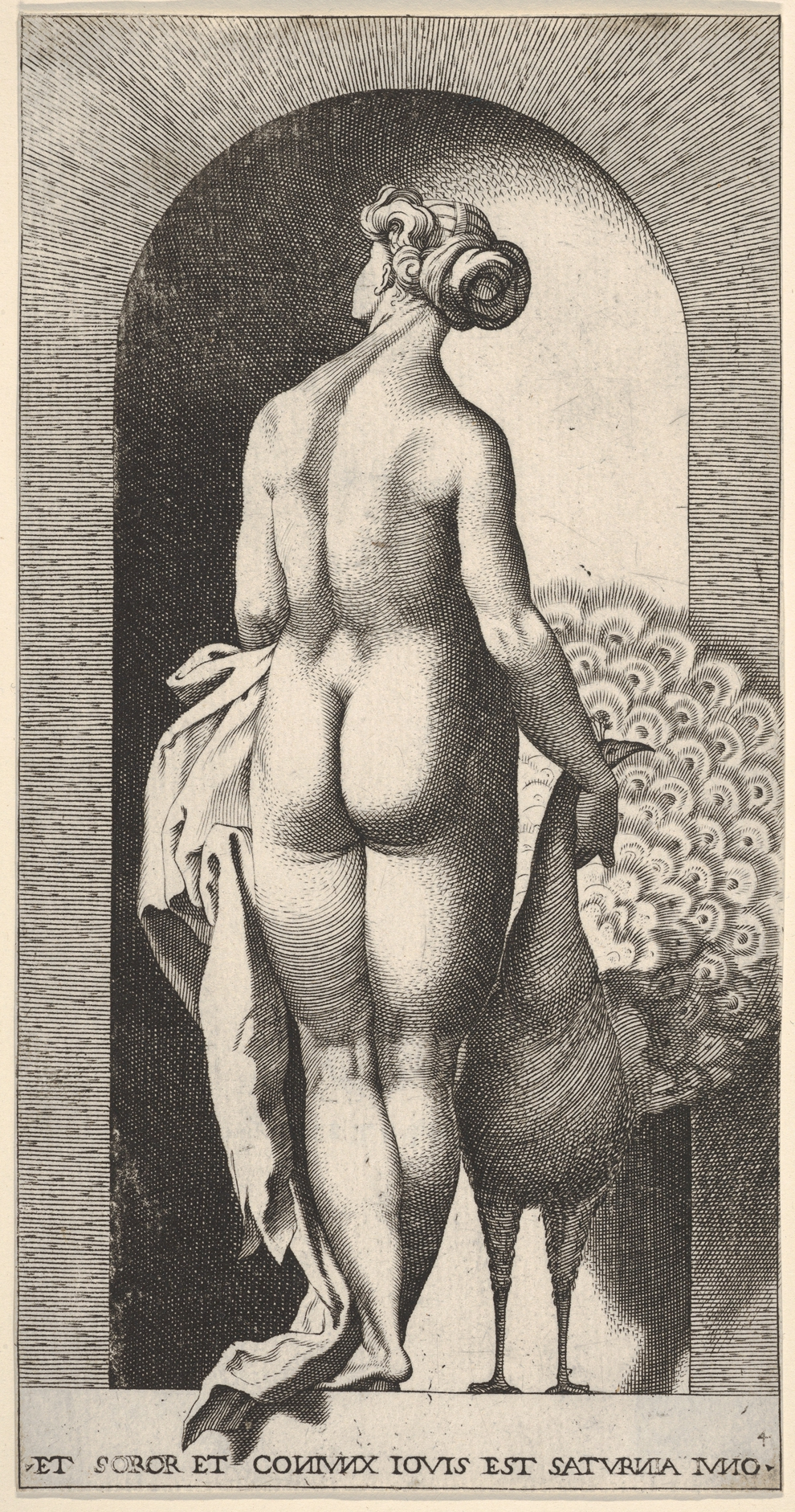 Juno standing in a niche, viewed from behind, stroking a peacock to her right, from a series of mythological gods and goddesses